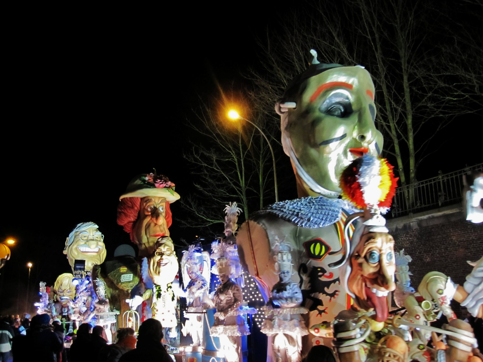 Eirg 2013